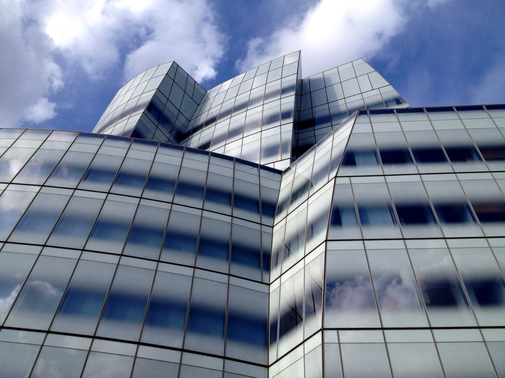 IAC Building